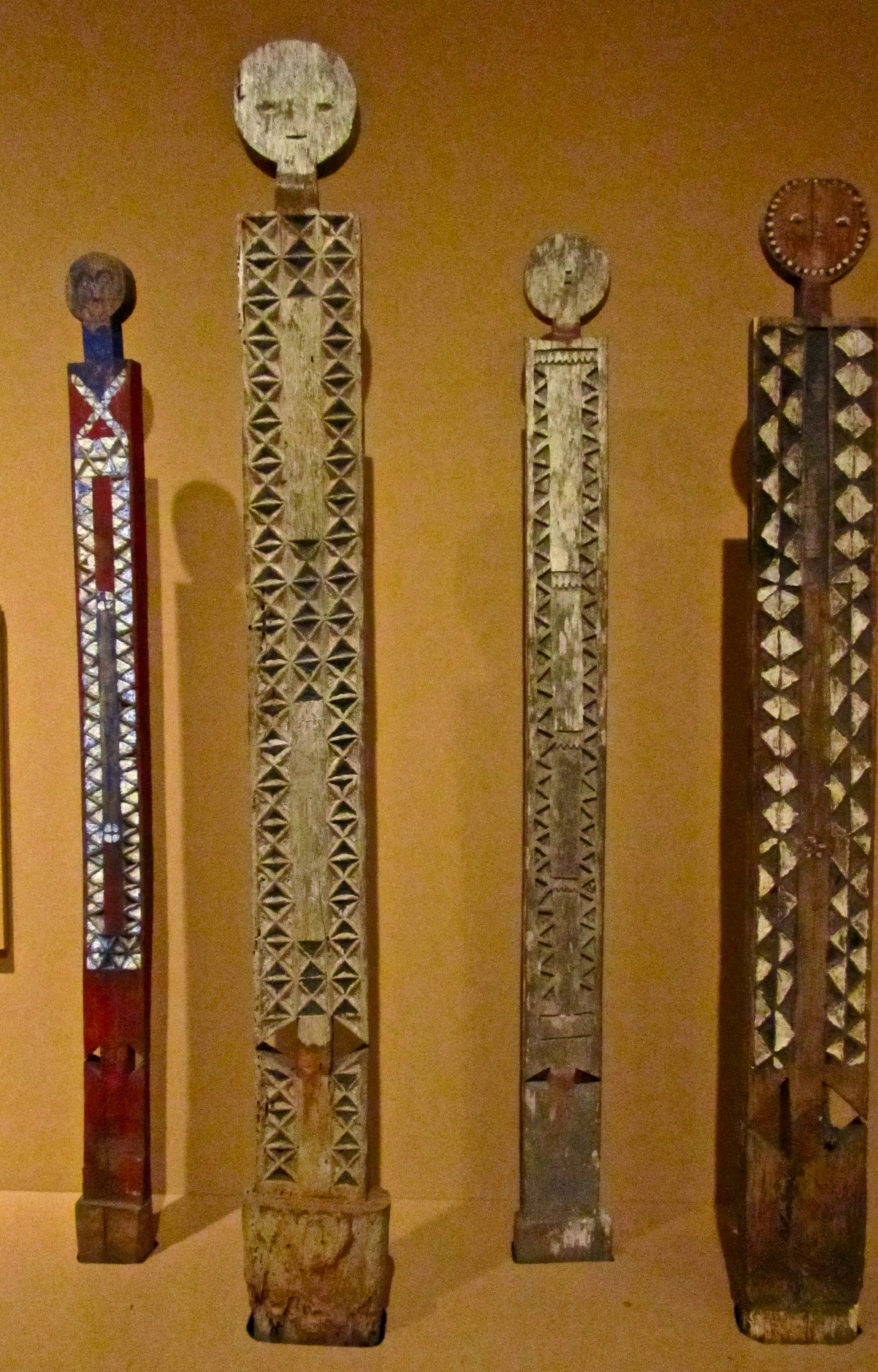 Giriama people Kenya wood, plaster, pigment, cloth 1940-1970